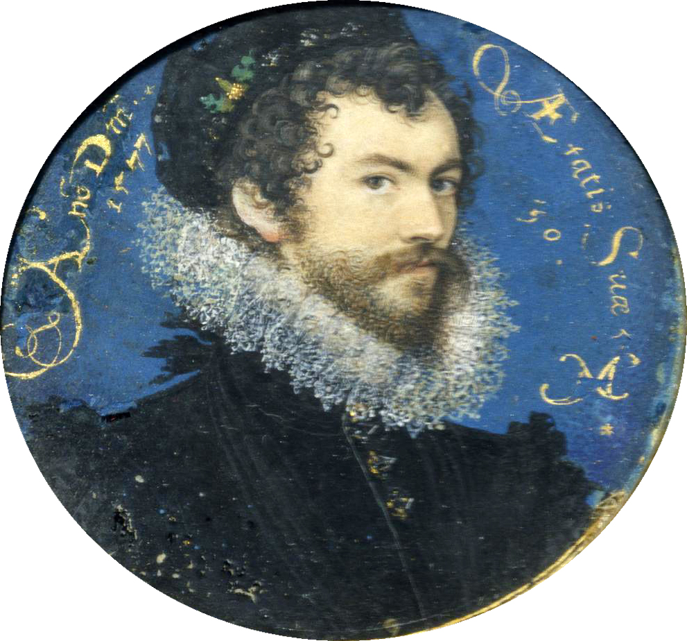 Earliest selfportrait of Nicholas Hilliard